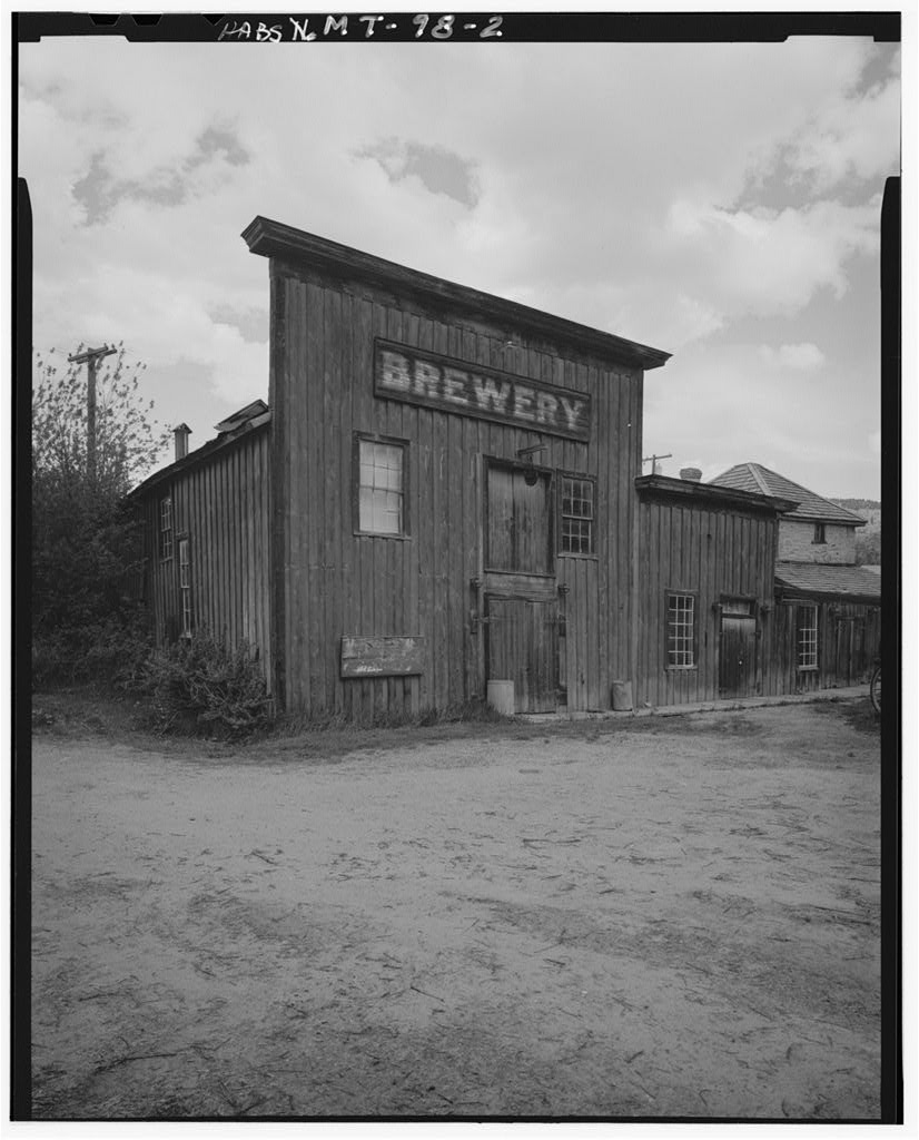 Front and west side exterior view (looking northeast) of Gilbert Brewery, Wallace Street, Virginia City, Madison County, Montana. Photograph from the HABS—Historic American Buildings Survey images of Montana, Library of Congress, Washington, D. C.